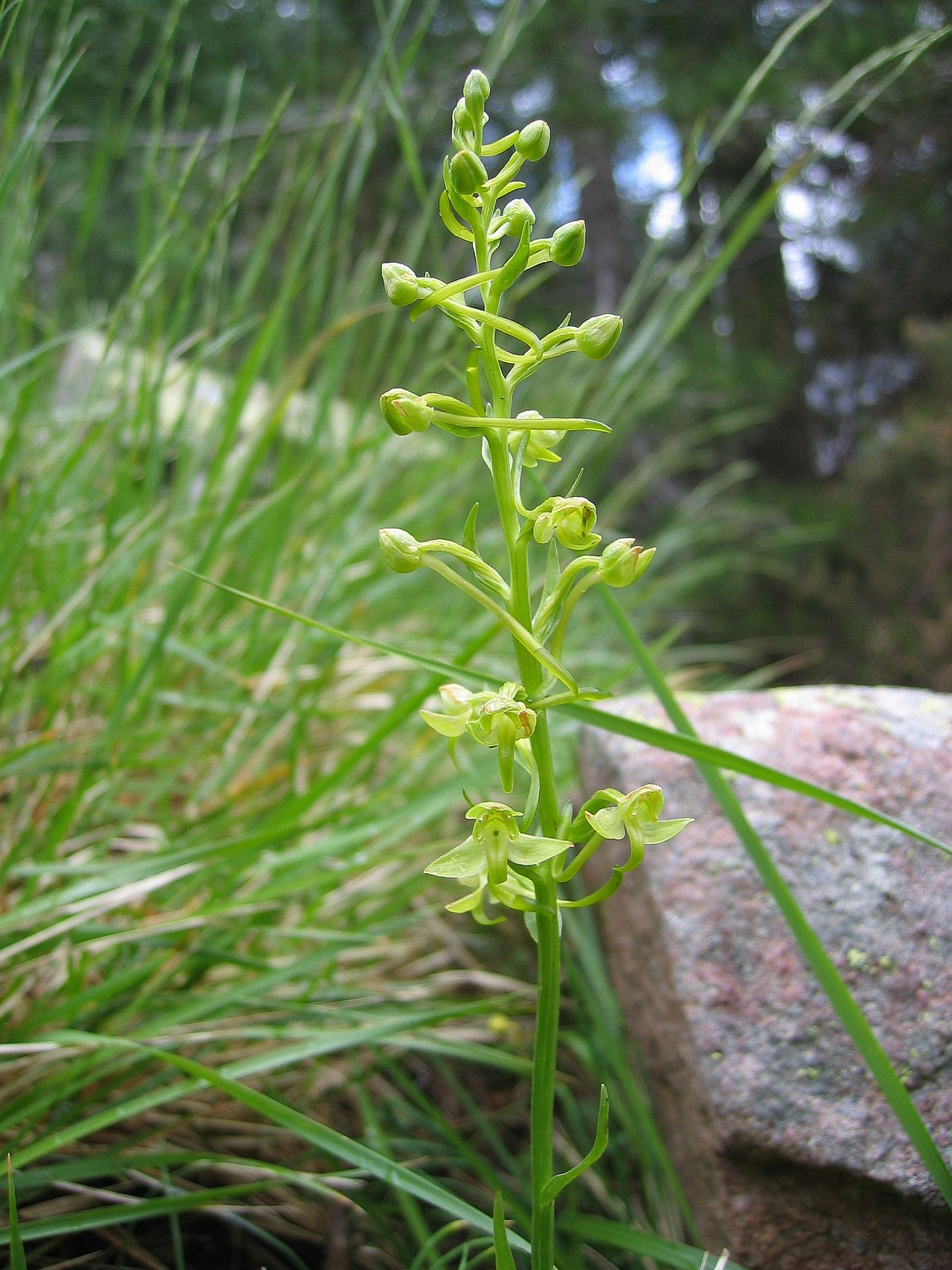 Platanthera algeriensis, Forest of Bonifatu ~1200m, Corse